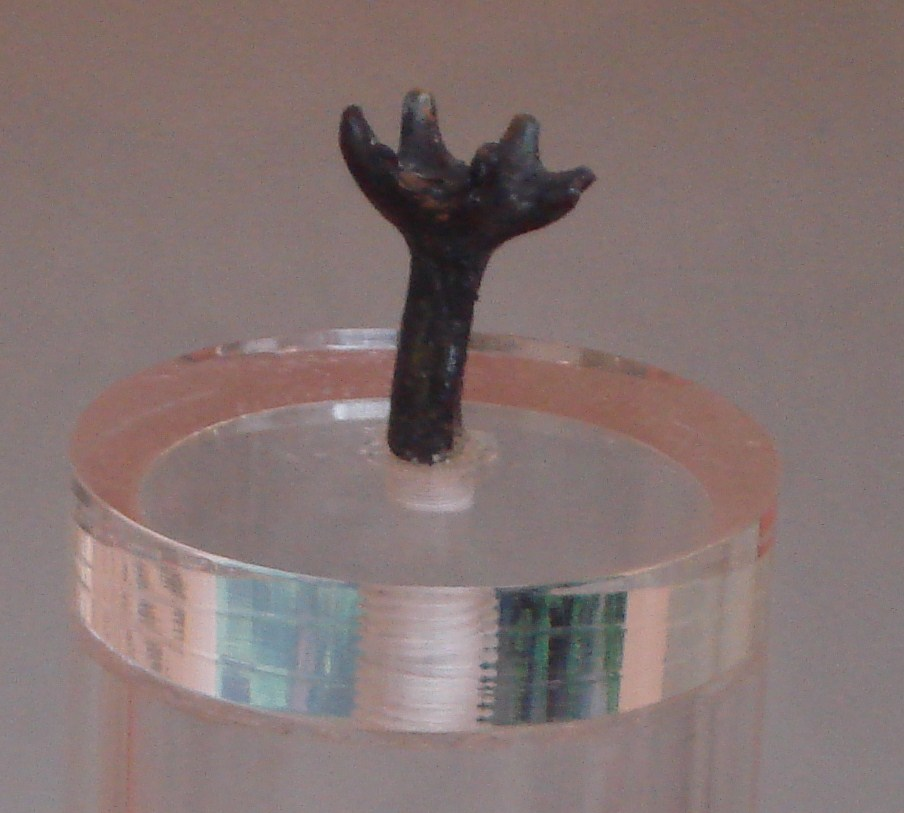 fossil of lagomeryx